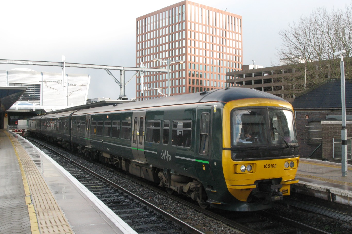 Great Western Railways 'Networker Turbo' 165102 waits in platform 2 at Reading while working services on the Basingstoke line.